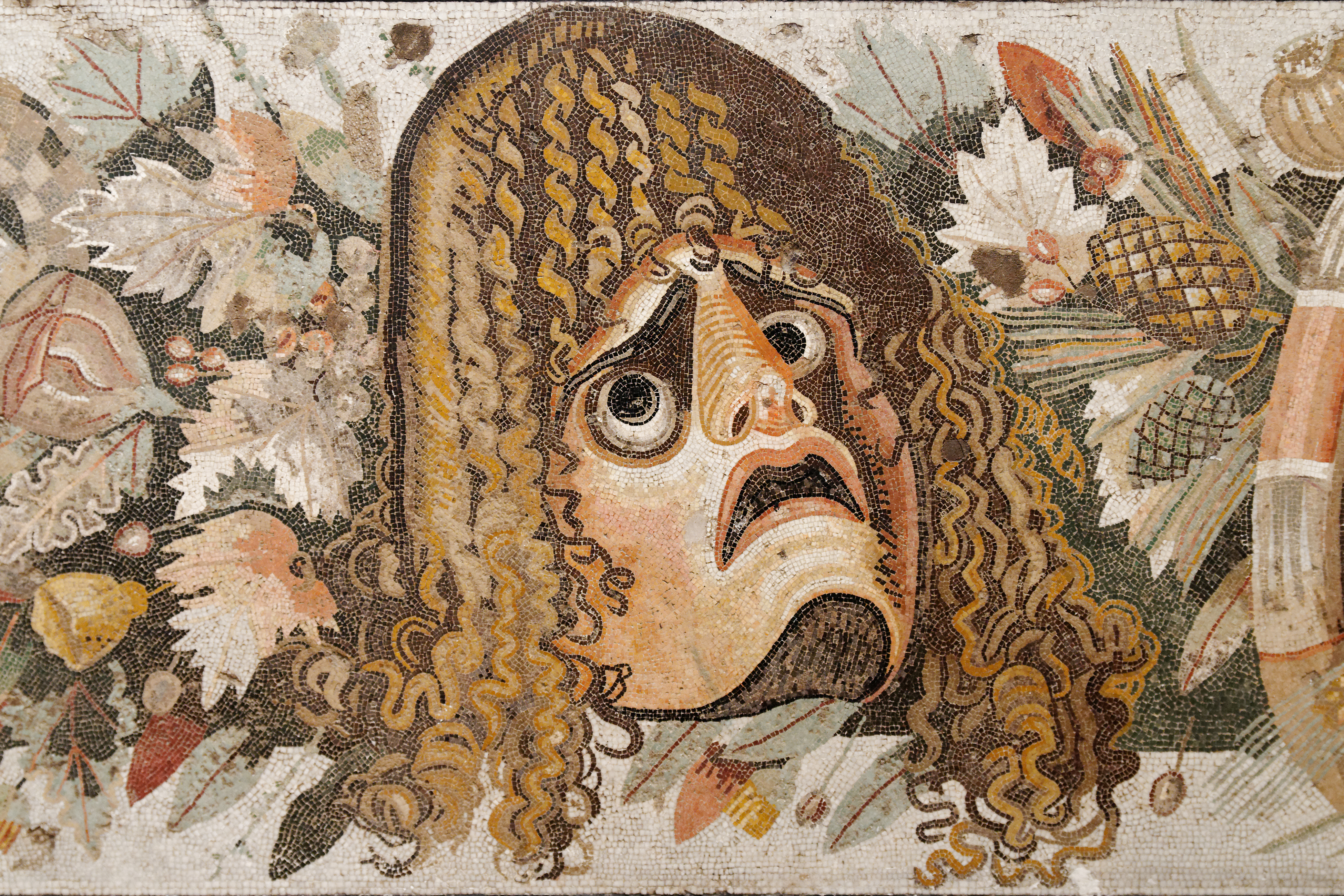 Masks, leaves and fruit, detail from a Roman mosaic.